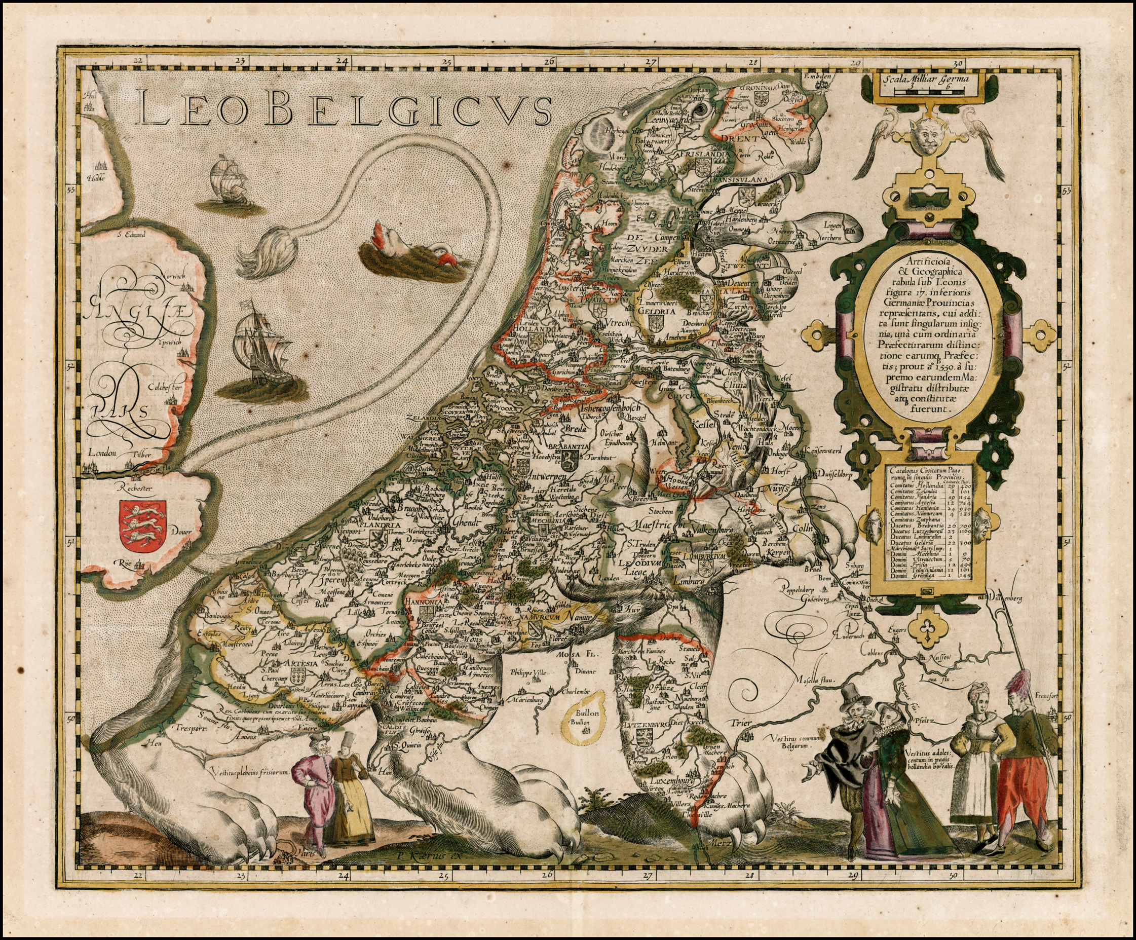 Title:Leo Belgicus; size: 37,5x45,5cm.